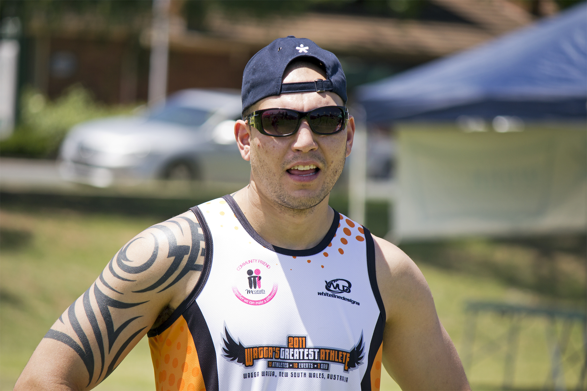 Anthony McCracken after the 50m running sprint at the 2011 Wagga's Greatest Athlete held at Bolton Park in Wagga Wagga, New South Wales.